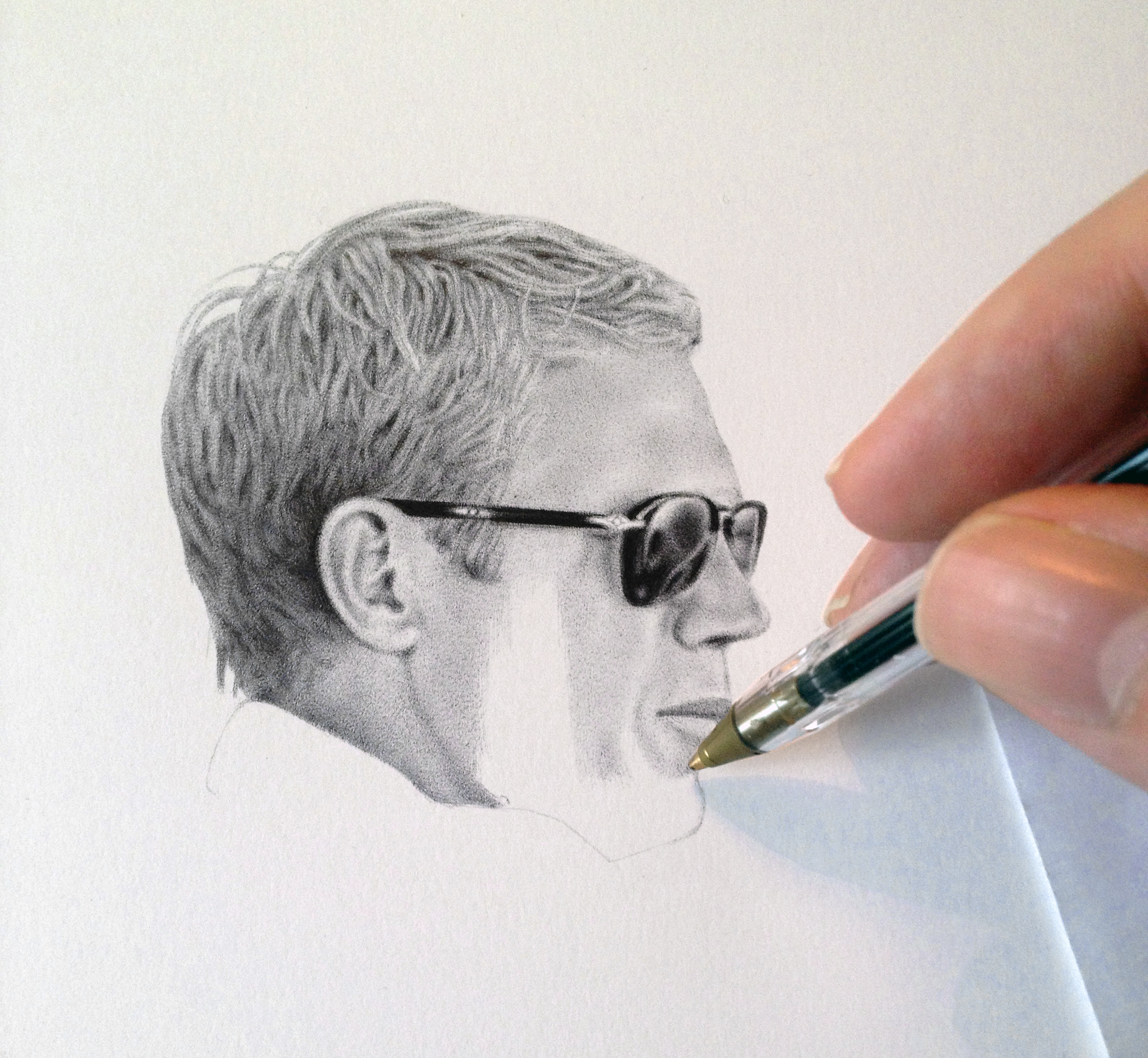 Photo of James Mylne using a Bic Cristal ballpoint pen to create a photo-realistic drawing of Steve McQueen.